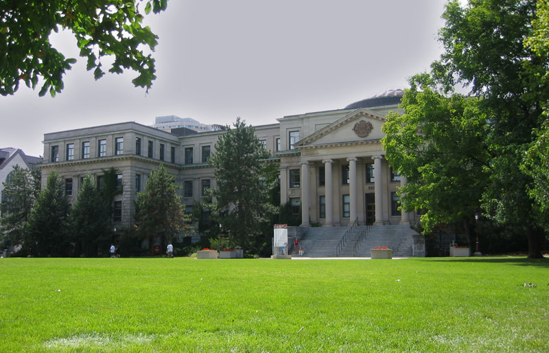 Tabaret Hall of the University of Ottawa.